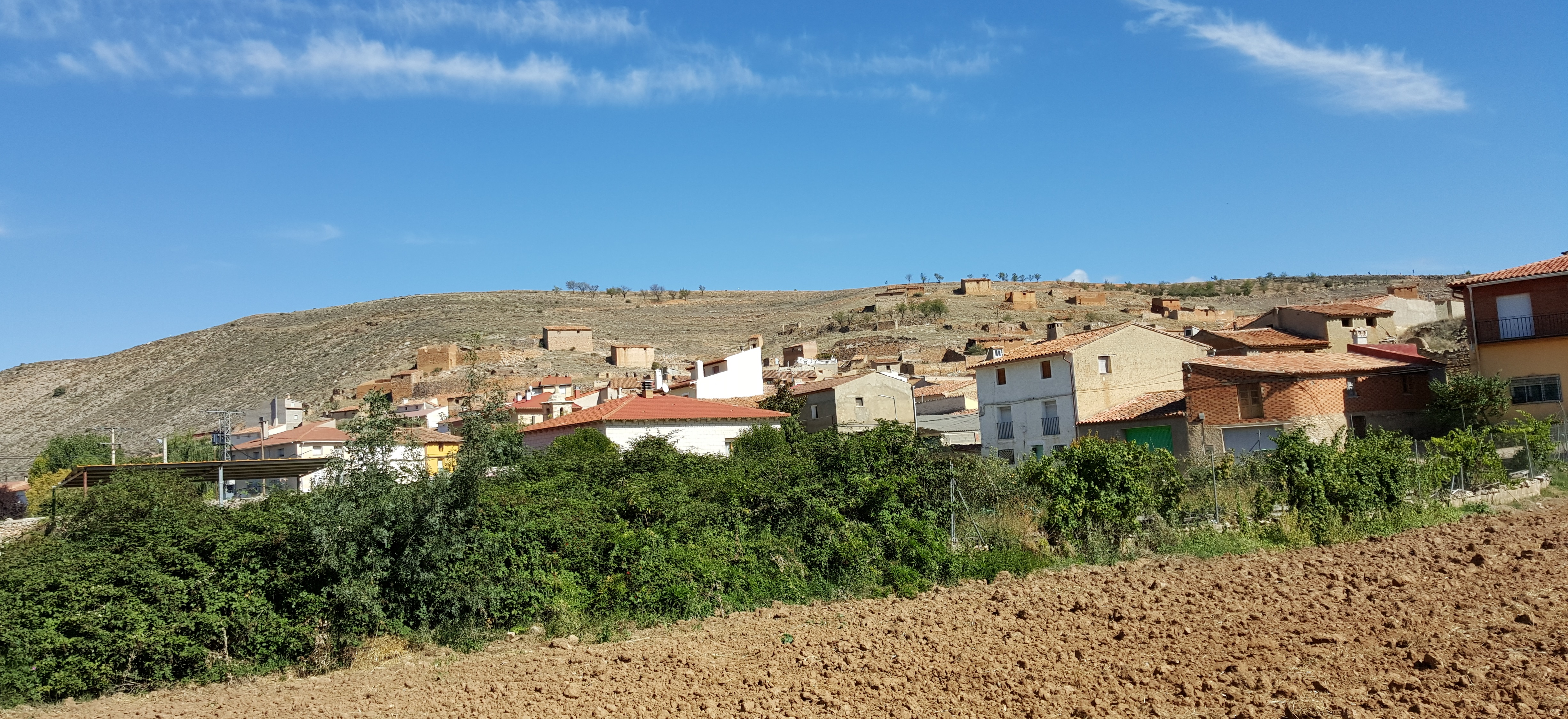 Cimballa, Zaragoza, Spain